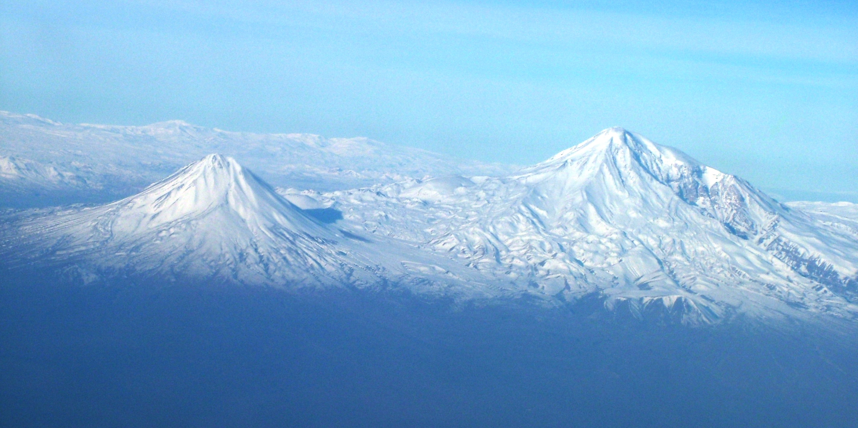 Ararat)_view_from_plane_under_naxcivan_sharur.jpg